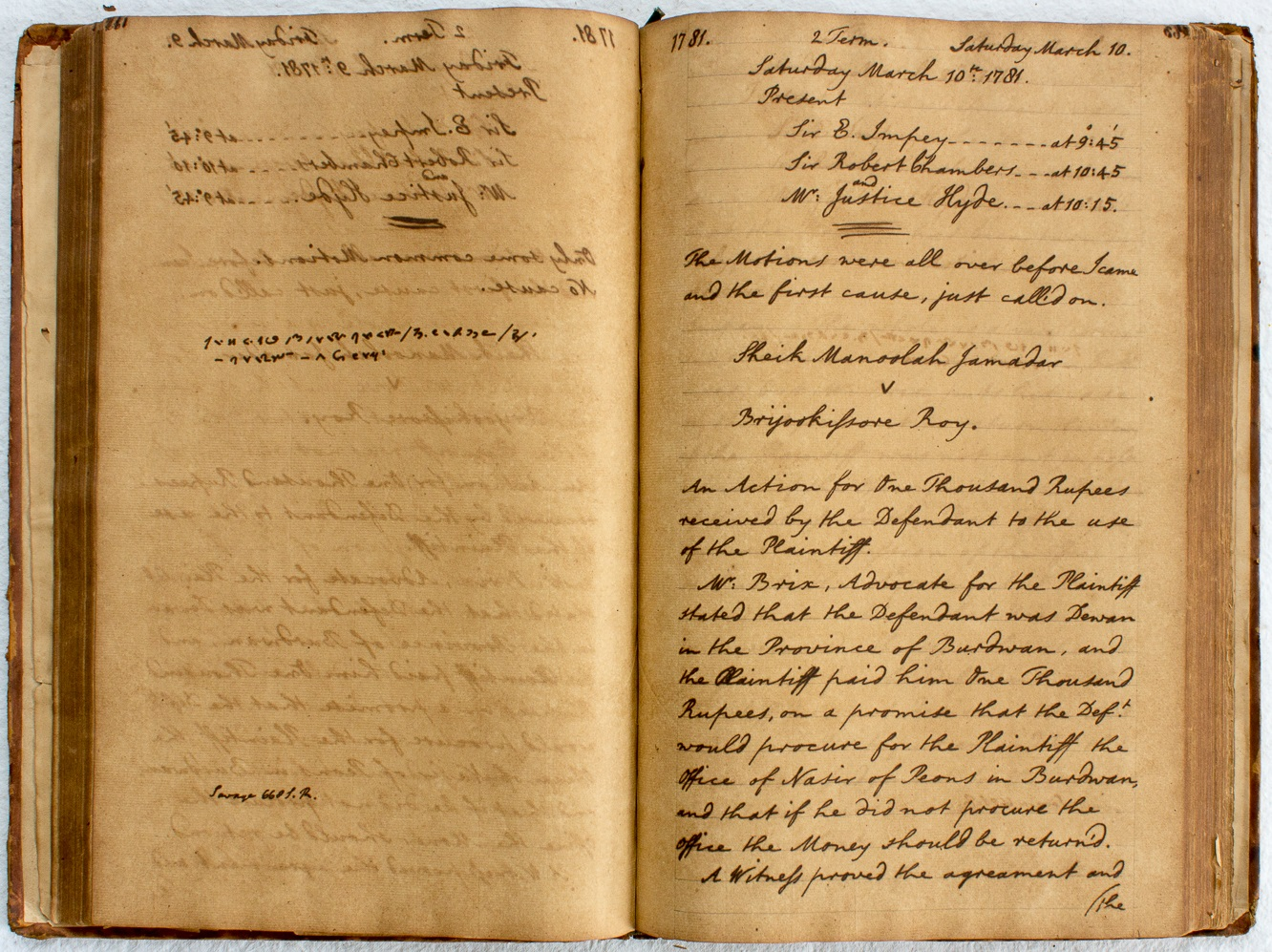 A page from Hyde's Notebooks in March 1781. Note Hyde's handwriting.